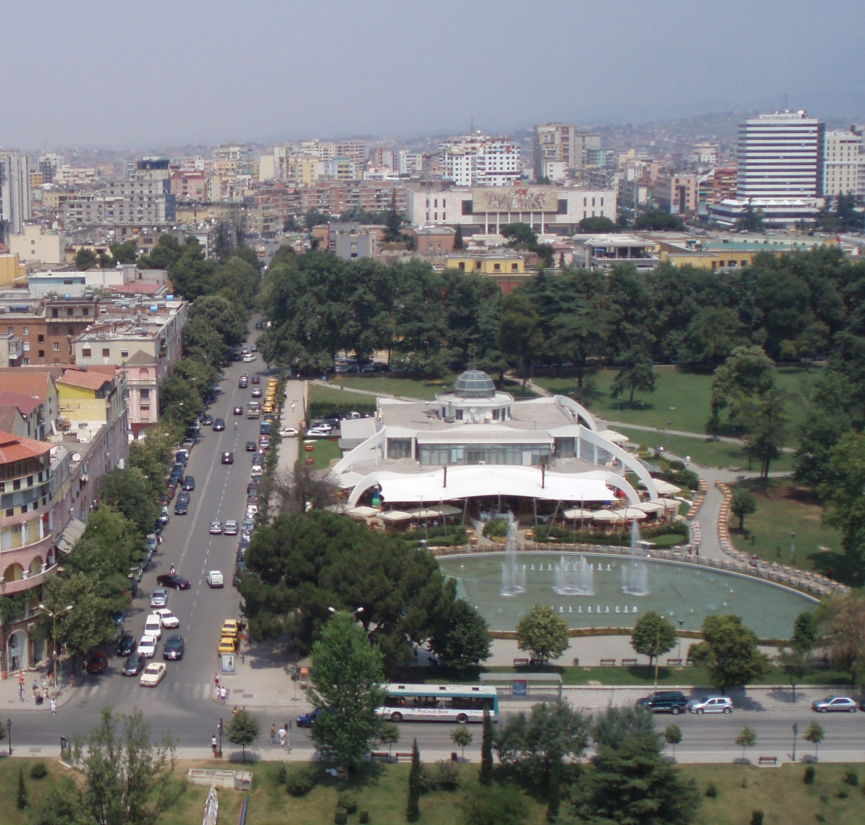 Tirana. View from Sky Tower.